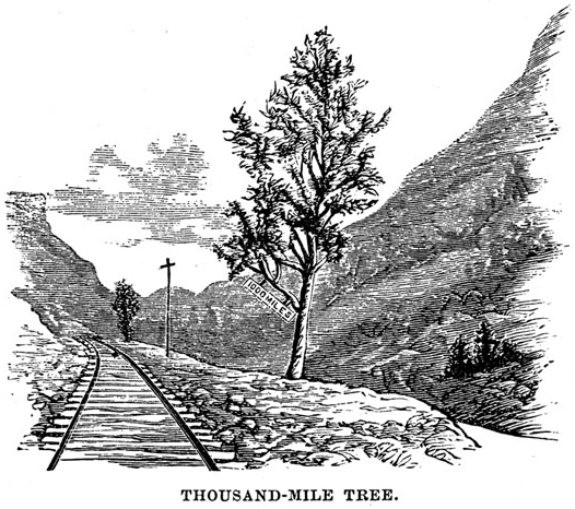 1878 Engraving of the "Thousand Mile Tree" located 1,000 miles west of Omaha, NE, on the Pacific Railroad grade of the Union Pacific Railroad. Obtained from: The Cooper Collection of U.S. Railroad History (Private collection) Originally uploaded to the english language wikipedia by user:Centpacrr